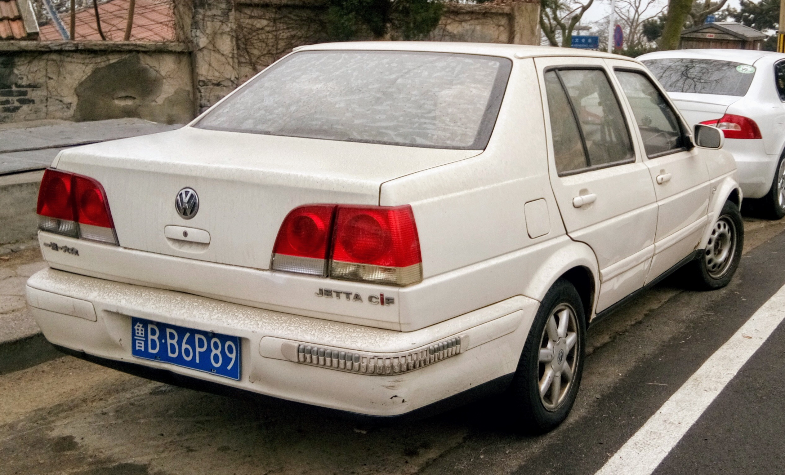 A Chinese version Volkswagen Jetta.Taken in Qingdao, China